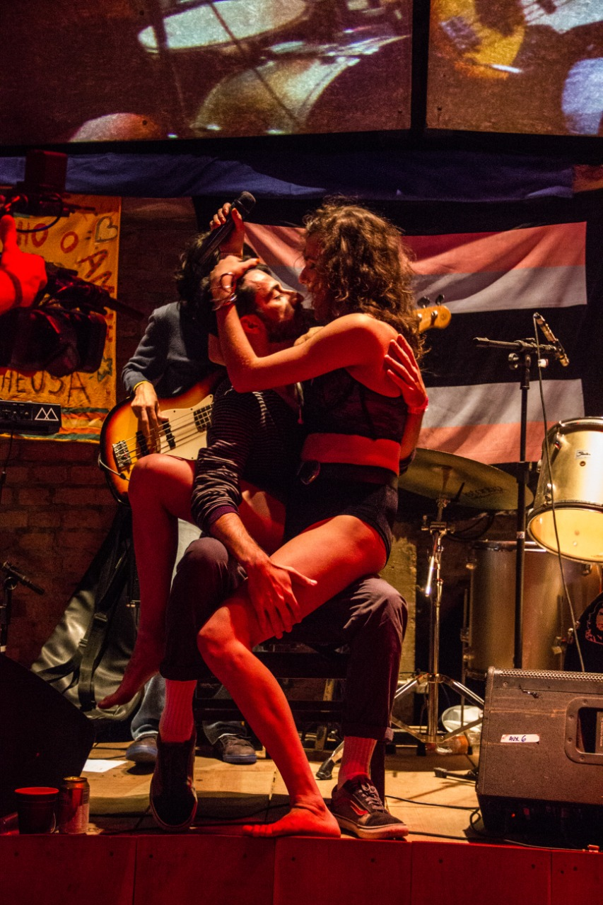 Marina em performance "Besame mucho" durante show TRAVA no Teatro Oficina